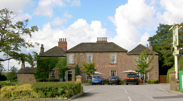 The Earl of Strafford public house This has changed hands several times in recent years.